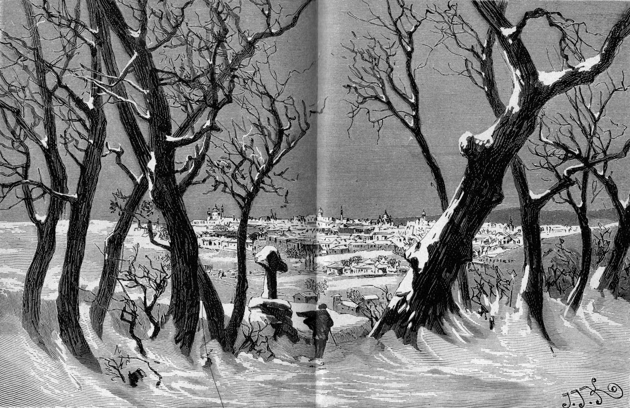 Czernowitz (Chernivtsi) in winter